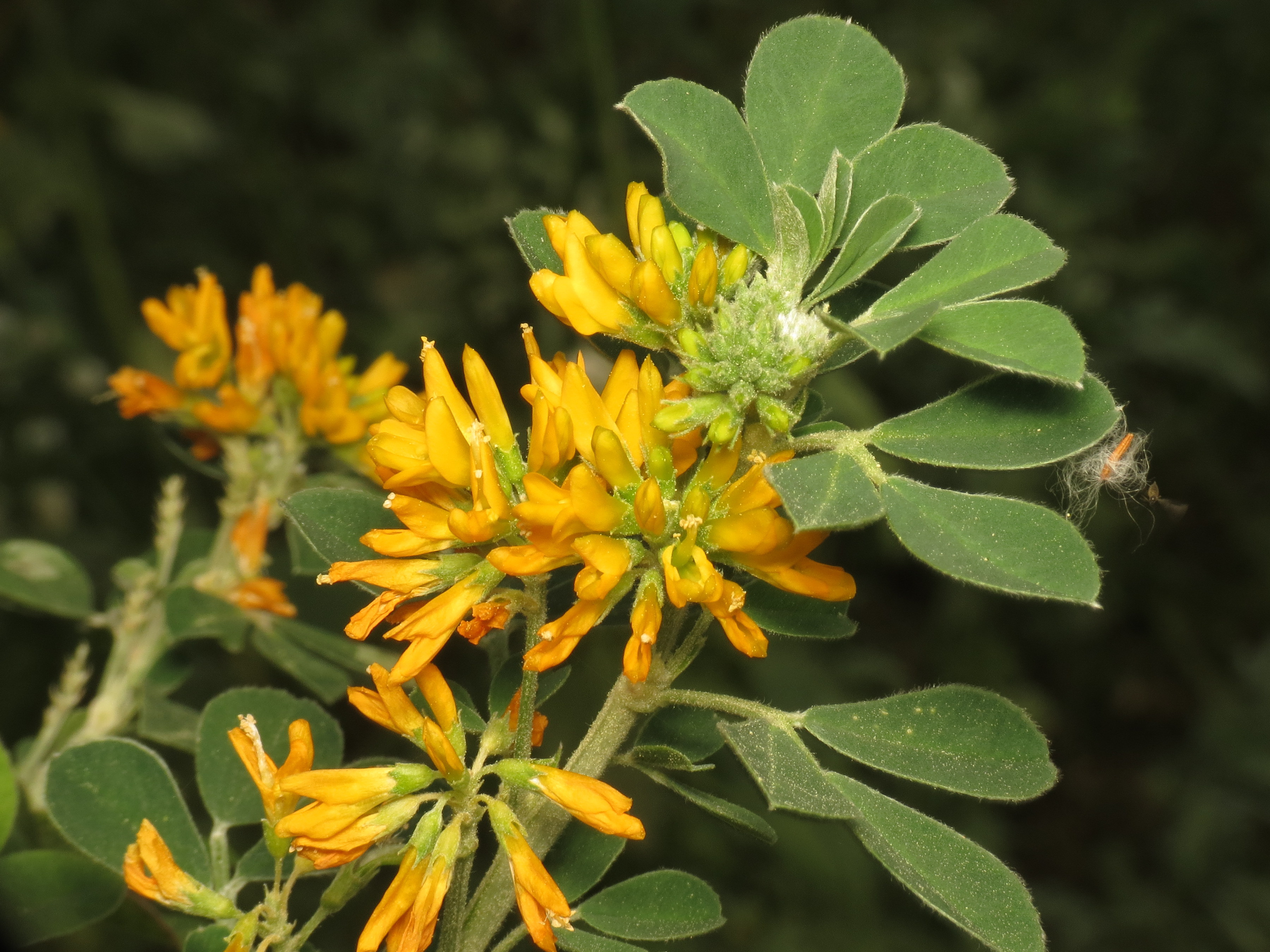 Medicago arborea L., Mount Lycabettus, Athens, Greece, 2 April 2014